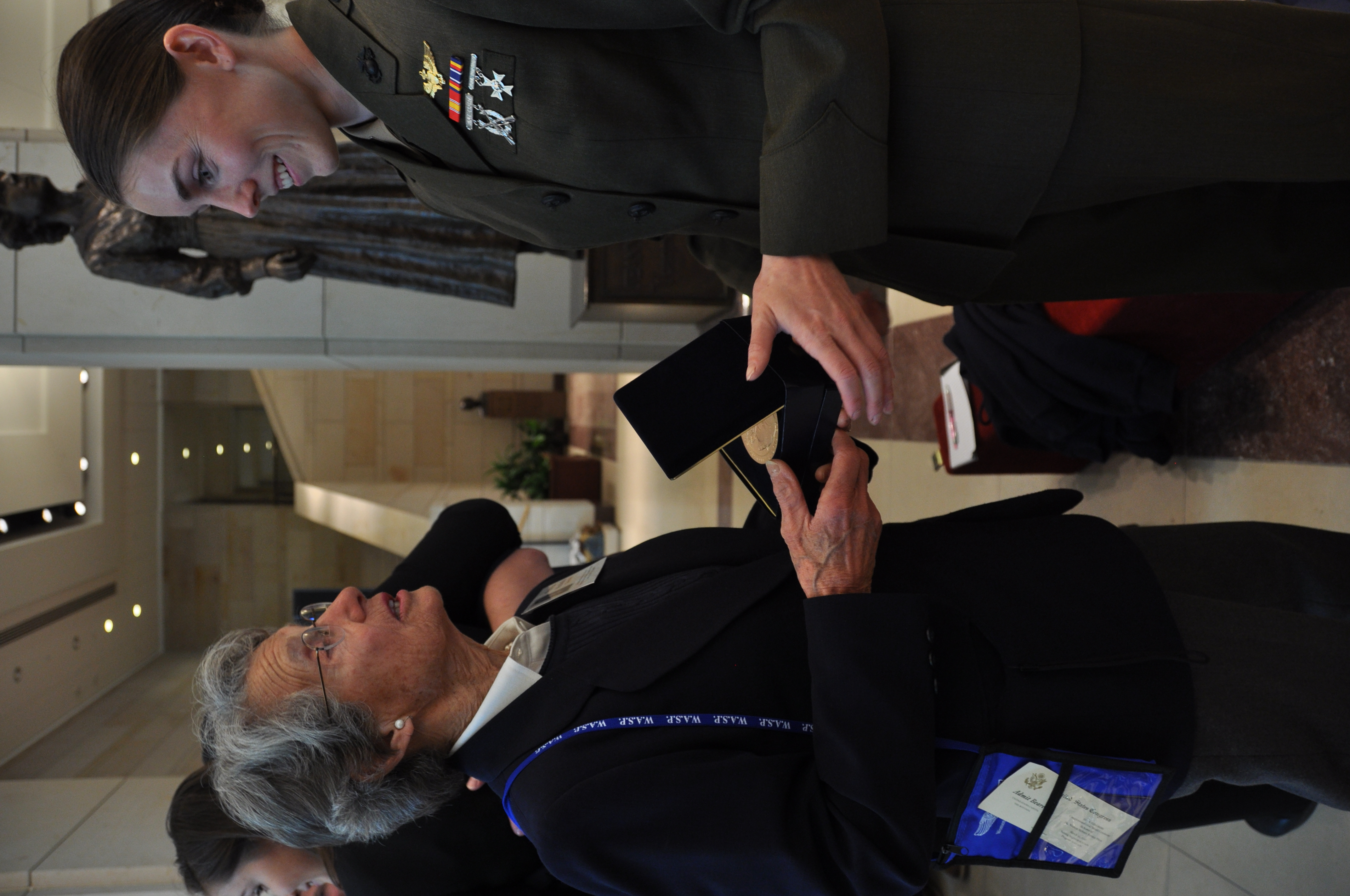 Patricia Nuckols, a Women Airforce Service Pilot from World War II, is awarded the Congressional Gold Medal after a ceremony on Capitol Hill on March 10 by 1st Lt Tina Terry, a MV-22 Osprey pilot from Marine Corps Air Station New River, N.C.